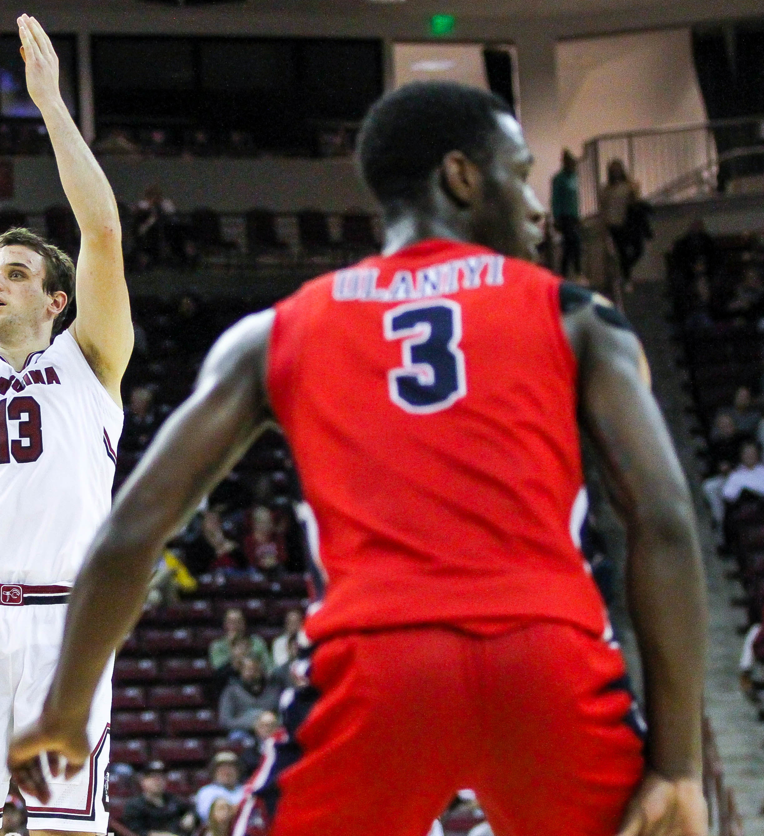 Vs. Stony Brook